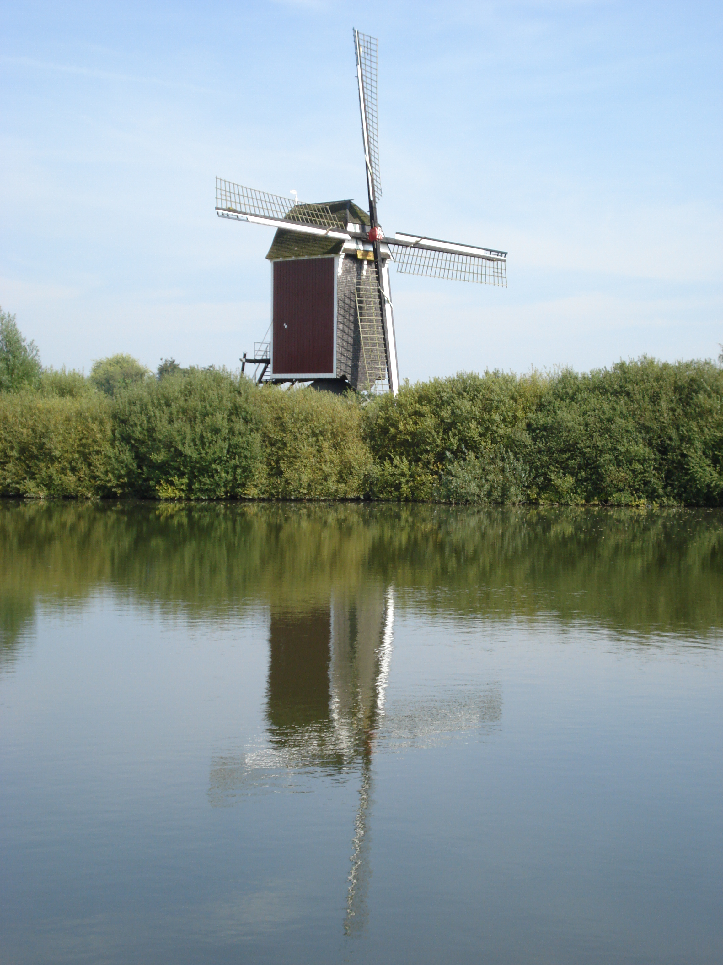 Nederasselt (Gld NL), Maasmolen reflected